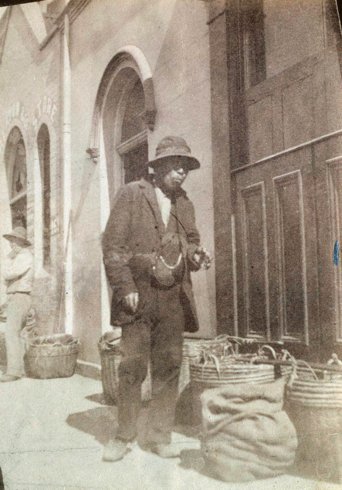 photo of chinese labourer